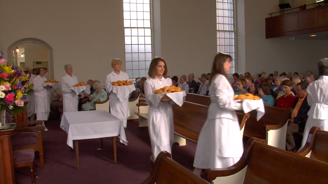 The image depicts a lovefeast being celebrated by a Moravian congregation in Bethania, North Carolina.